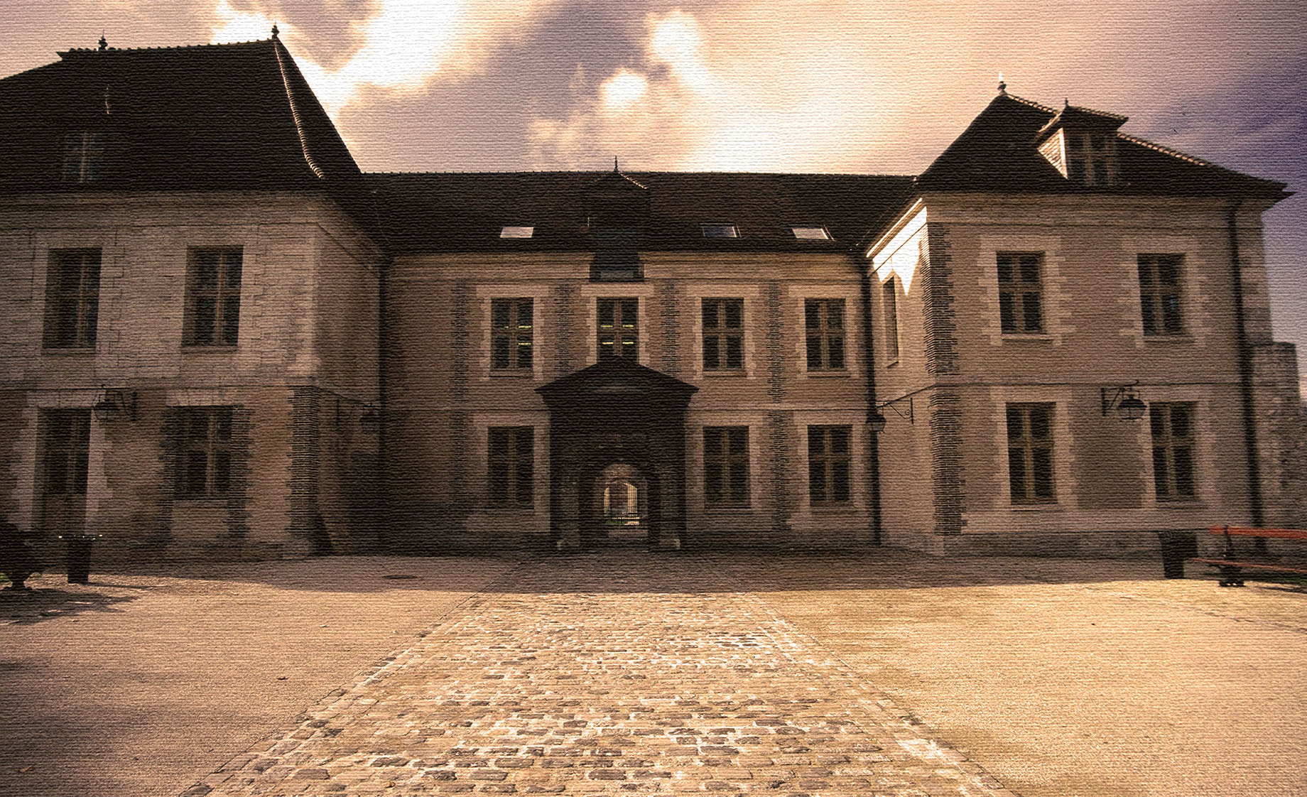 ESAA